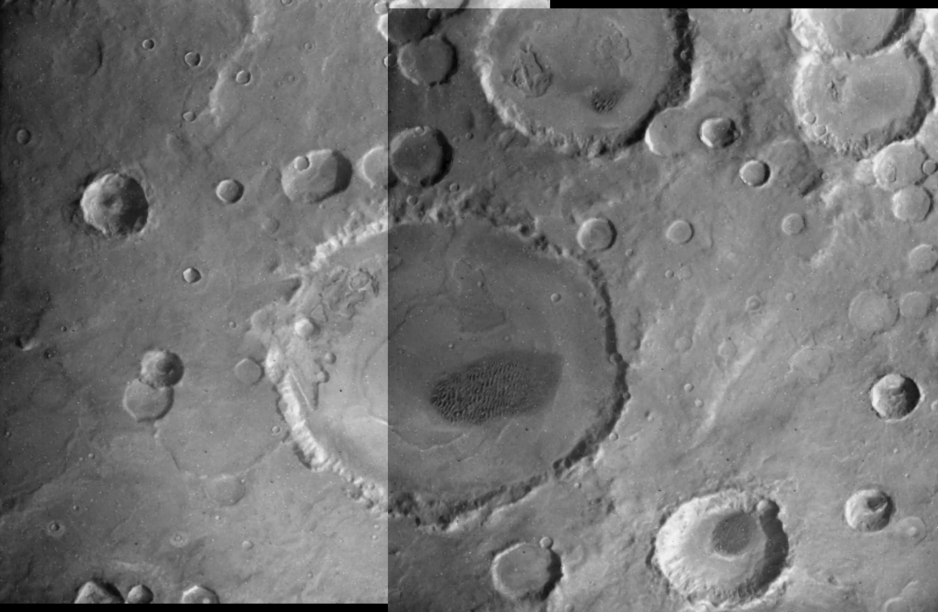 Proctor crater on Mars. Mosaic of two Viking 1 images from camera A (094A45, 094A47). Clear filter was used for these images. Resolution is about 237 m/pixel. North is in upper right. Both images were despeckled prior to mosaicing. Statistics below are for the right image: Emission Angle: 27.1 Incidence Angle: 78.6 Latitude: -46.0 Longitude: 337.0 Phase Angle: 82.1